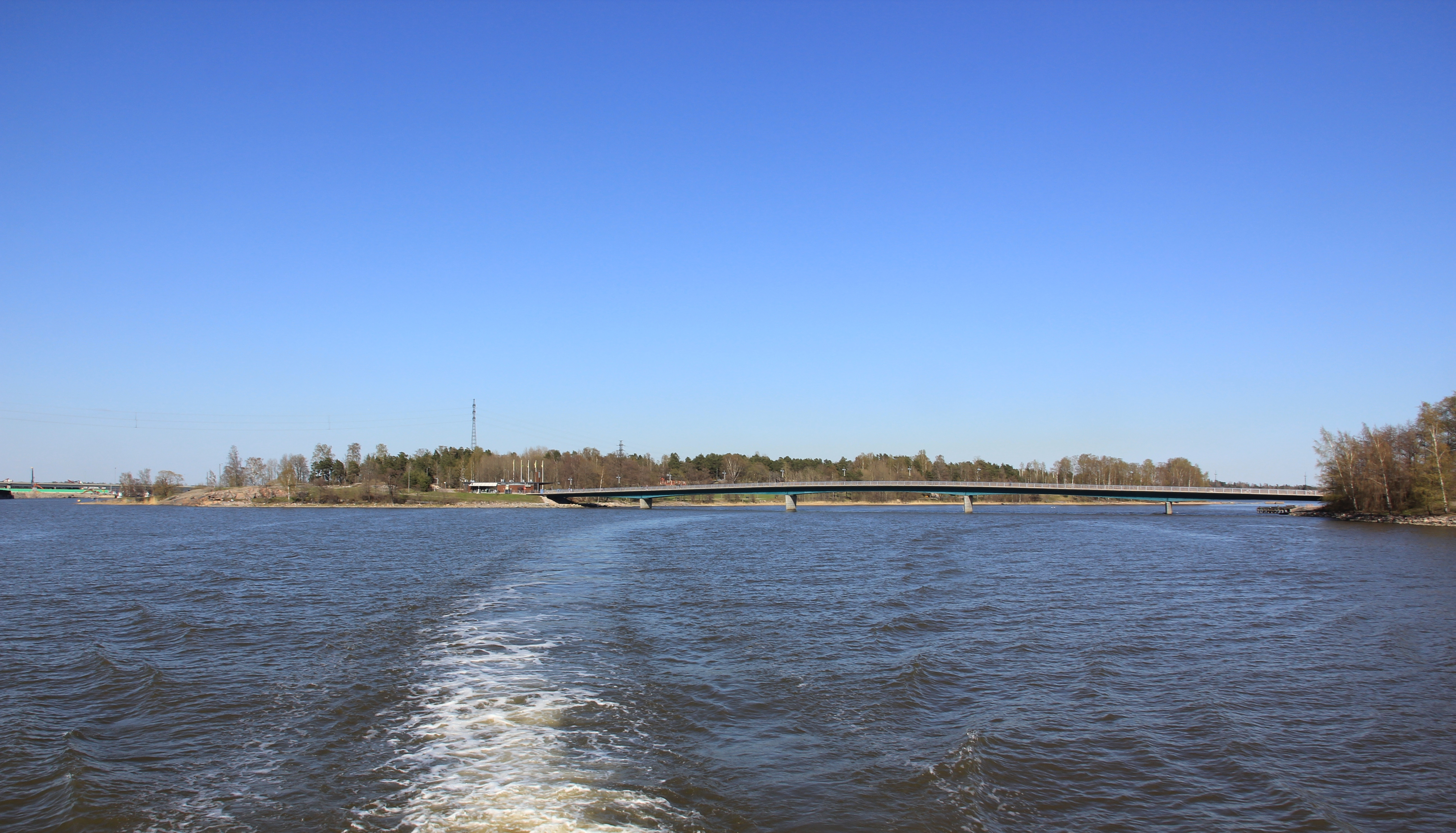 Mustikkamaa island and Korkeasaari bridge. The bridge was selected as the bridge of the year in 2005.